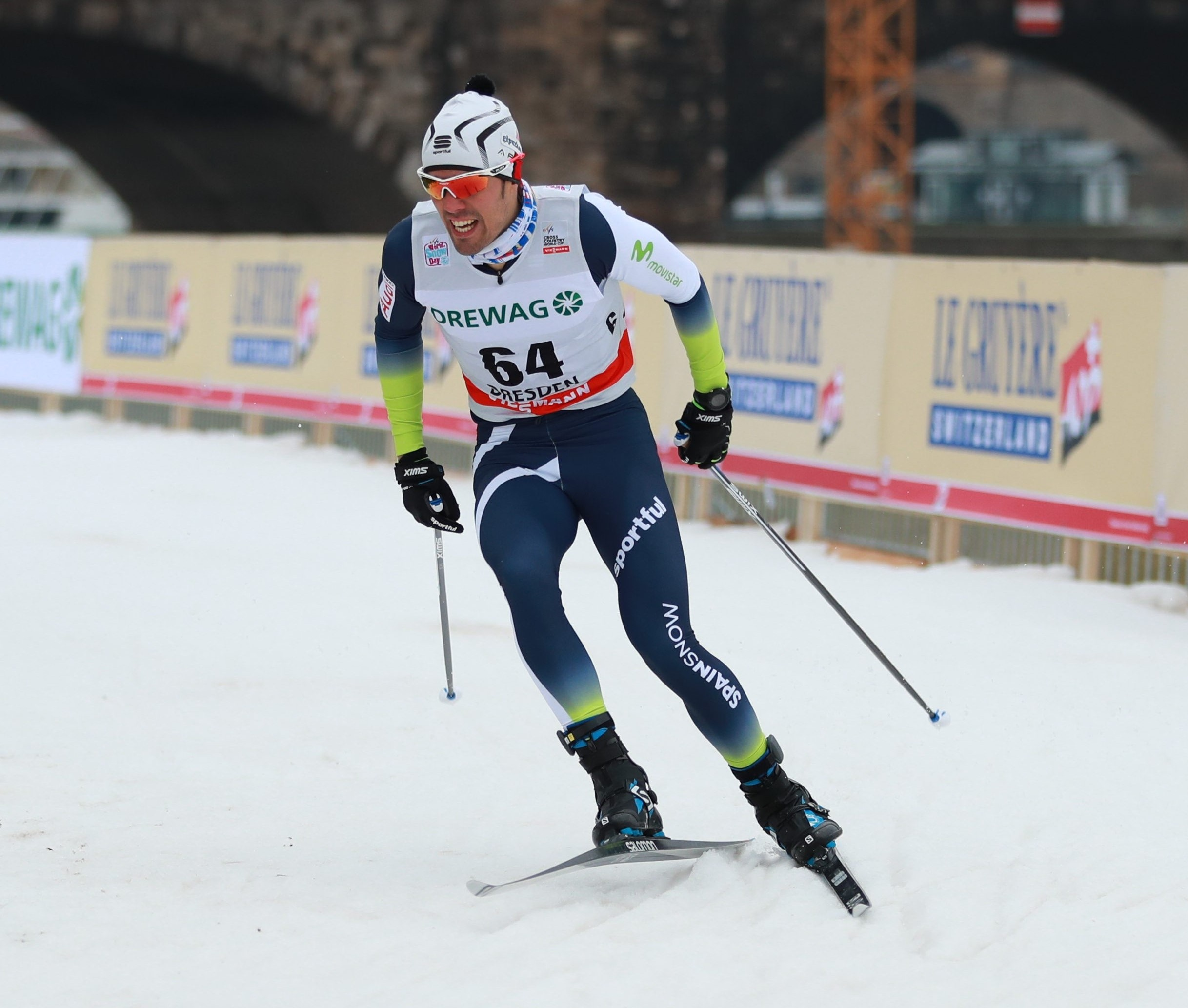 Mens Prolog at the FIS Cross-Country World Cup Dresden 2018: Imanol Rojo